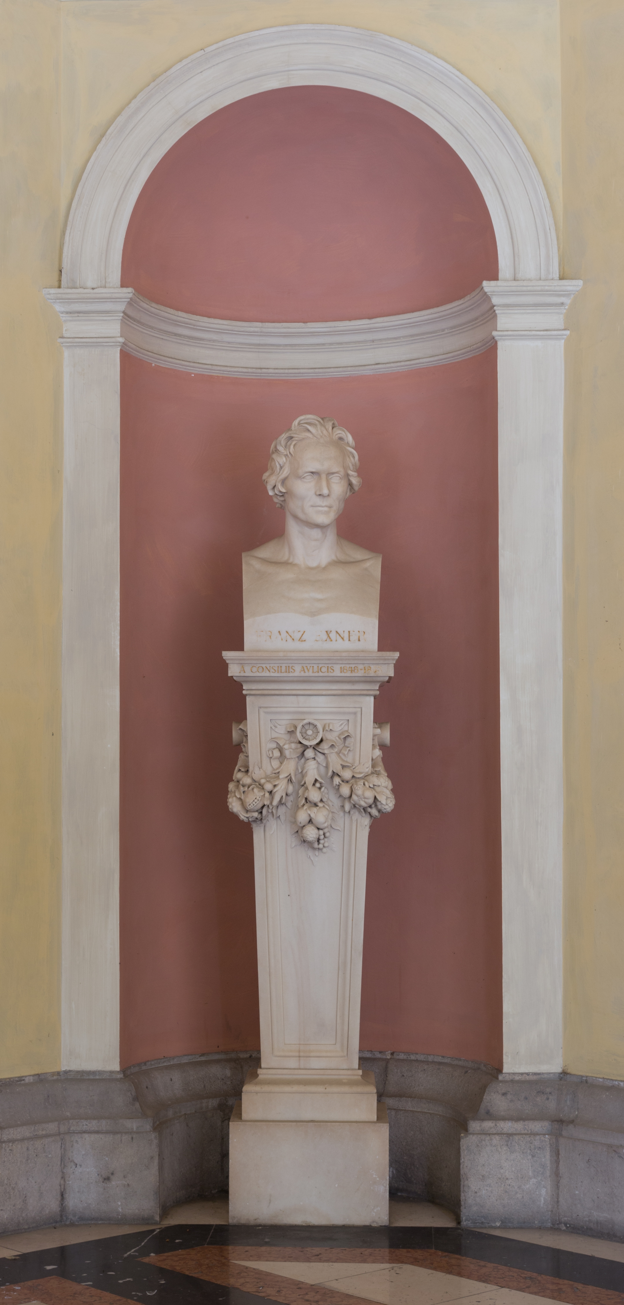 Franz Exner (1802-1853), bust (marble) in the Arkadenhof of the University of Vienna, (Maisel# 57). Artist: Carl Kundmann (1838-1919), unveiled 1893